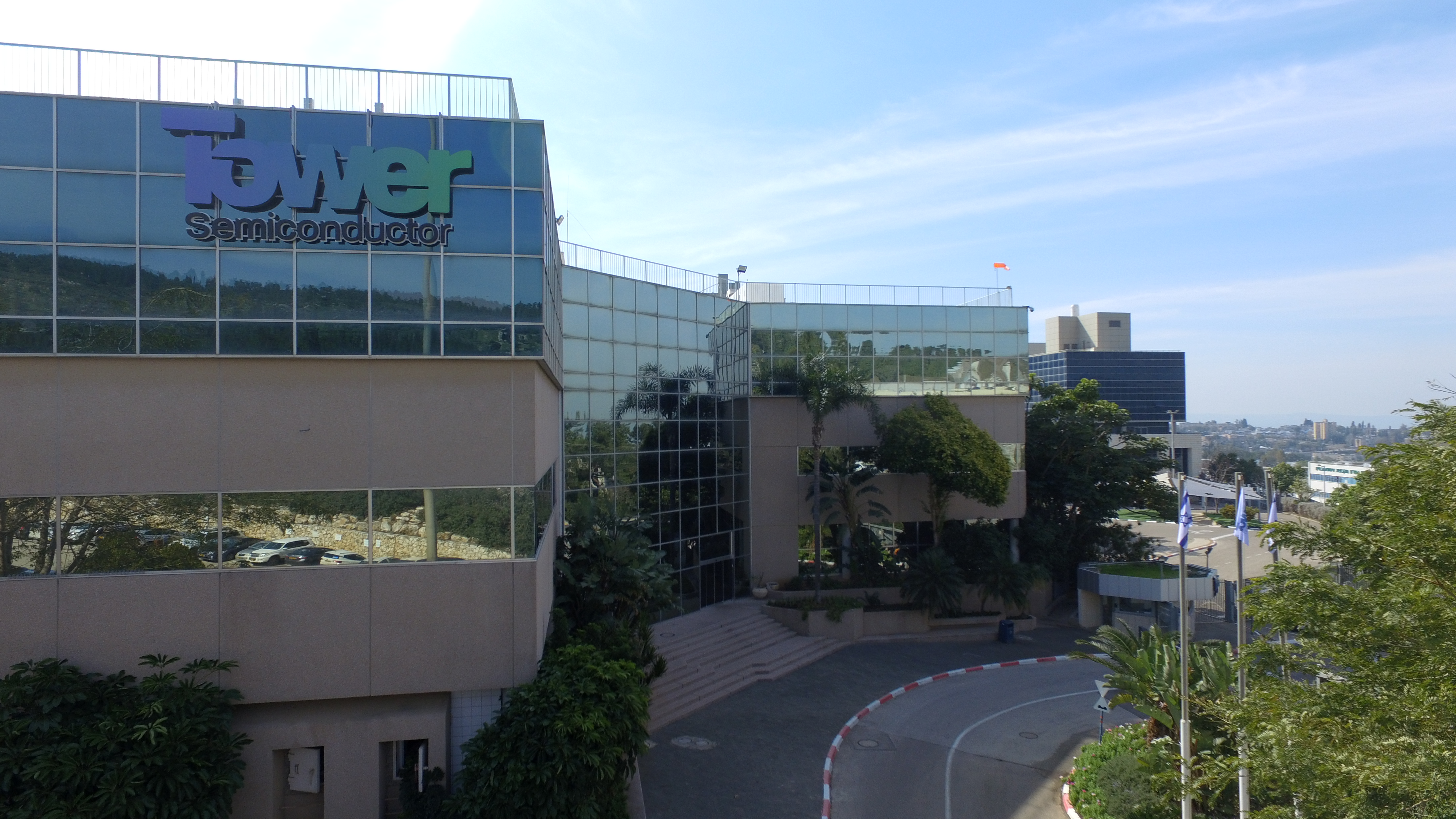 Tower Semiconductor Headquarter Office